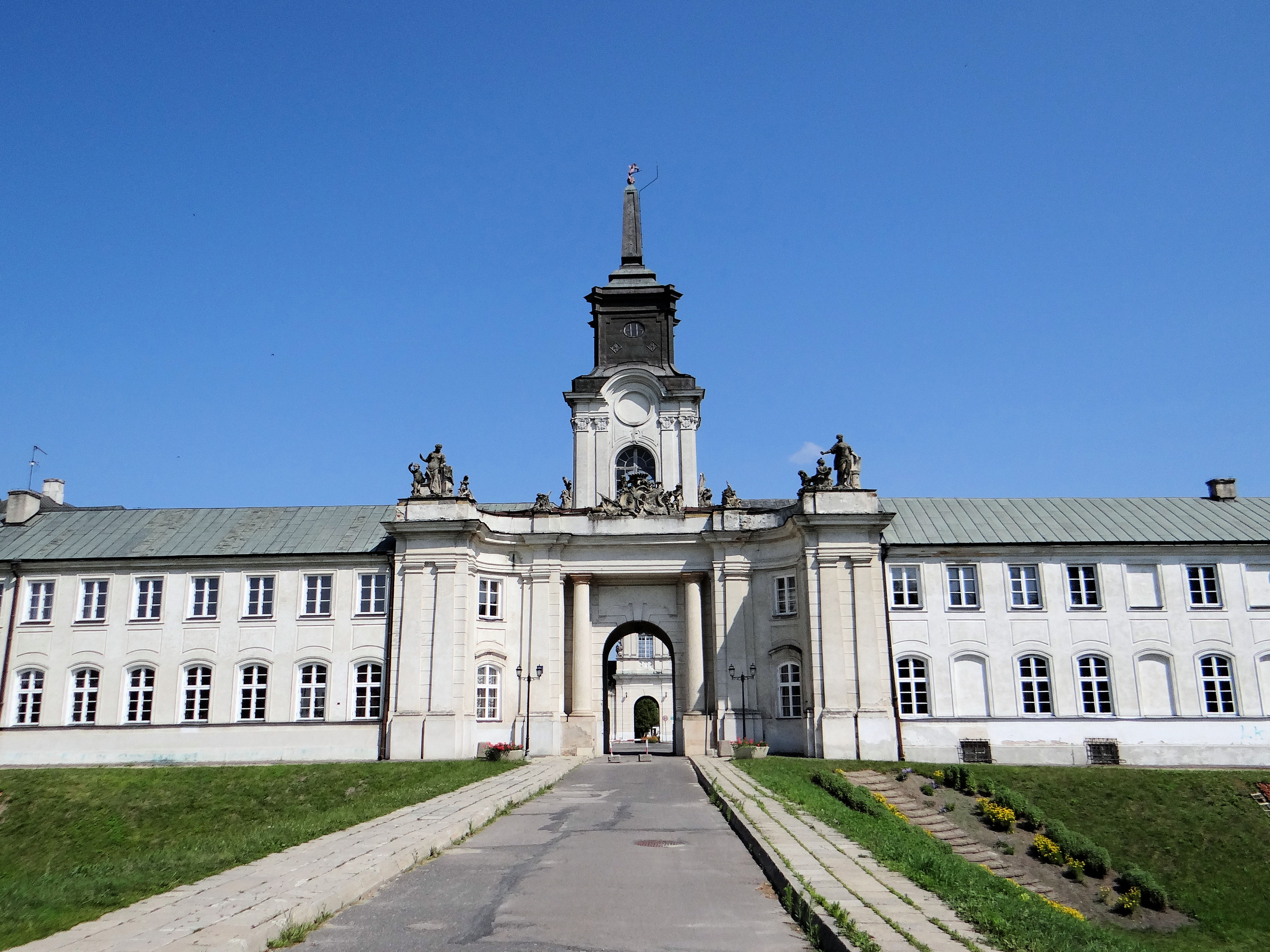 Western tower of the Radzyń Podlaski Palace